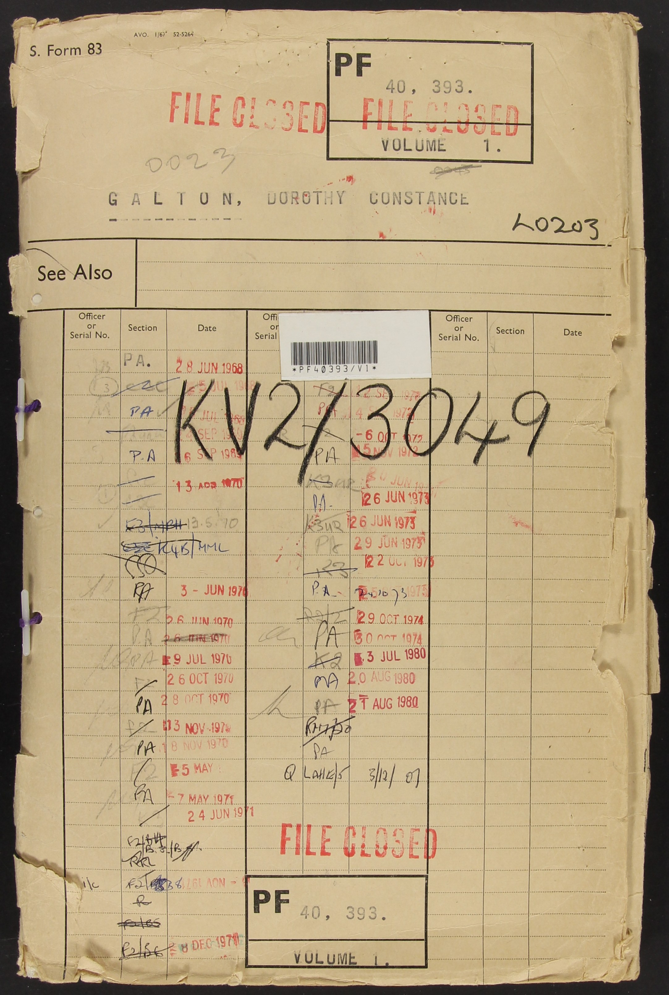 British security services file on Dorothy Constance Galton (cover only)